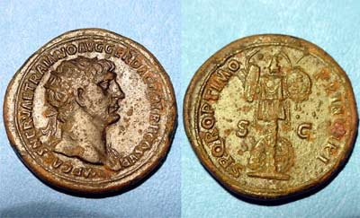 Trajan Dupondius, probably Cohen 573 (see Cohen)